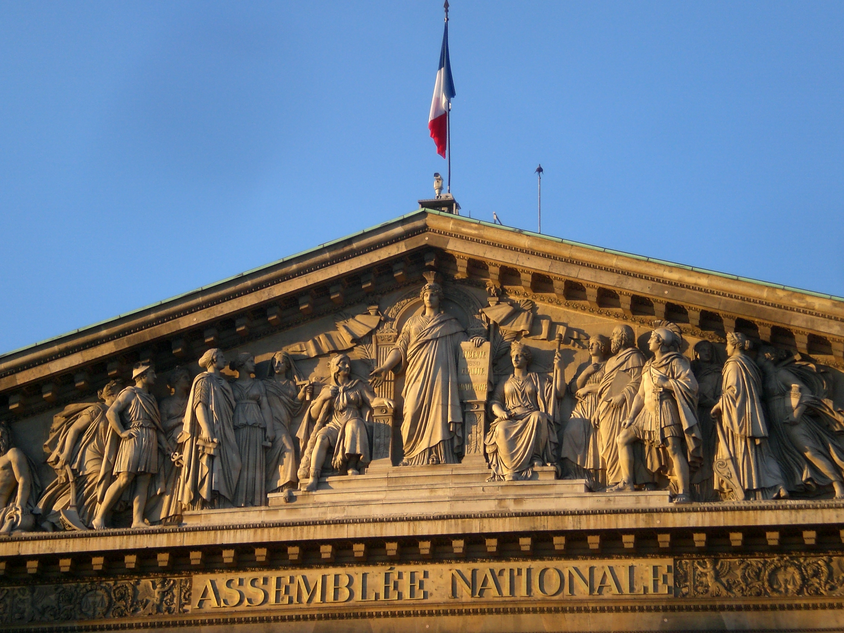 Paris, Facade of Palais Bourbon, 1803-07 .